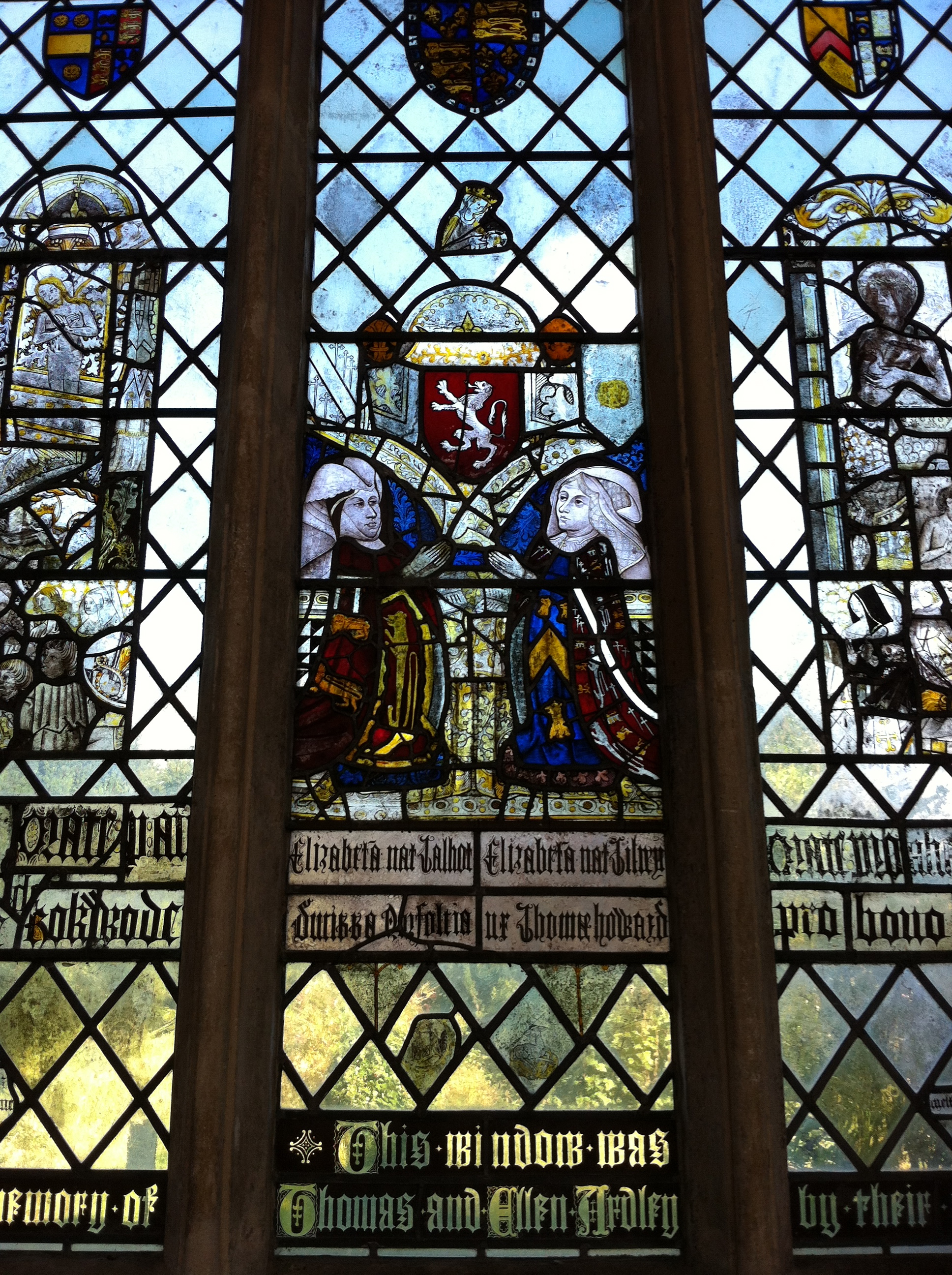 In stained glass in Holy Trinity Church, Long Melford. Window 1, North Aisle, The "John Tenniel Window". The shield above shows the arms of Mowbray (Gules, a lion rampant argent). Kneeling at left is Lady Elizabeth Talbot, daughter of the first Earl of Shrewsbury, and wife of John de Mowbray, 4th Duke of Norfolk (1444–1476), of the 1397 (Mowbray) creation. On her kirtle she displays her paternal arms Gules, a lion rampant or a bordure engrailed of the last (Talbot) and on her mantle shows Gules, three lions passant guardant or a label of three points argent (Brotherton, for Thomas of Brotherton, 1st Earl of Norfolk, a younger son of King Edward I and ancestor of the Duke of Norfolk). Below is inscribed in Latin: Elizabeta nat(a) Talbot Ducissa Norfoltia ("Elizabeth born Talbot, Duchess of Norfolk"). This image is believed by some to have been the inspiration for John Tenniel’s drawing of the Duchess in Lewis Carroll’s "Alice’s Adventures in Wonderland", but others claim Tenniel based his work on a sixteenth century Flemish painting. Kneeling at right is Agnes Tilney, the wife of Thomas Howard, 2nd Duke of Norfolk (1443–1524), of the 1483 (Howard) creation. On her kirtle she displays her paternal arms Azure, a chevron between three griffin's heads erased or (Tilney) and on her mantle the quartered arms of Howard, her husband (1&4: Gules, a bend between six cross crosslets fitchy argent (Howard); 2&3: grand quarterly first and fourth Brotherton second and third Mowbray). Below is inscribed in Latin: Elizabeta nat(a) Tilney ux(or) Thomae Howard ("Elizabeth born Tilney wife of Thomas Howard") Source: Horton, John, The Escutcheon (Cambridge University Heraldic and Genealogical Society), Volume 11, Number 3 – Easter Term, 2006, Society Visit to Long Melford [1]